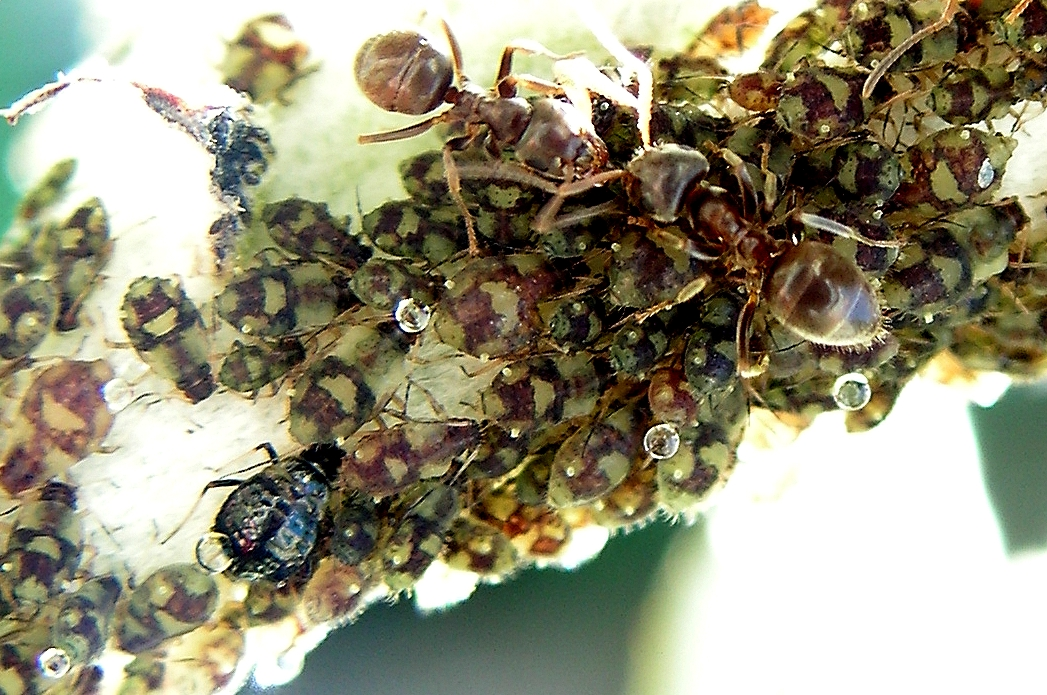 Aphids visited by black garden ants (Lasius niger) and brimming over with honeydew. Photograph taken in The Hague by Jens Buurgaard Nielsen